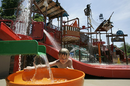 Captain Kidd's play area at Idlewild and Soak Zone